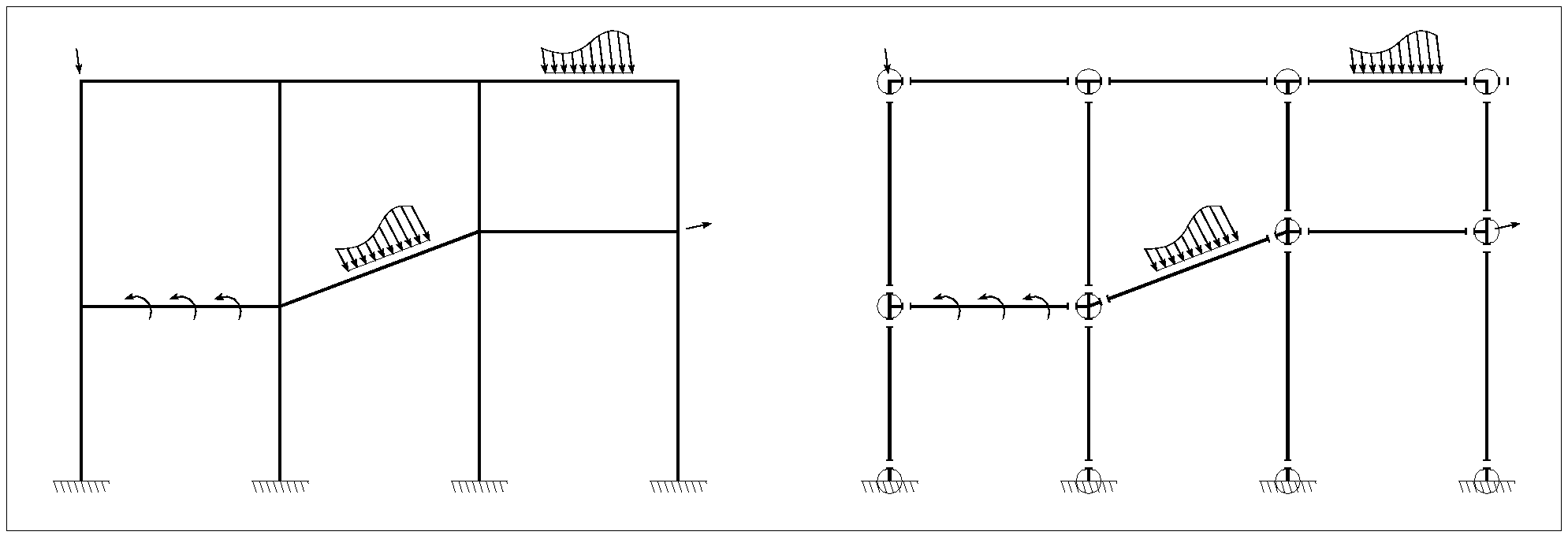 Frame as assemblage of nodes and beams